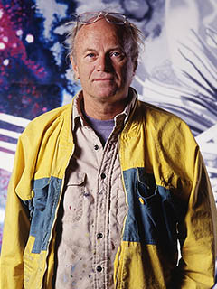 Photo of James Rosenquist in his Aripeka, Florida studio, 1988. Photo by Russ Blaise.